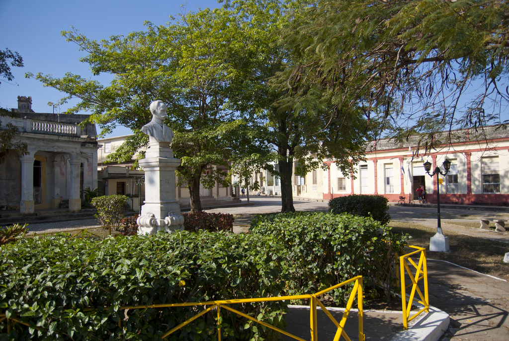 Marti Square, in Ranchuelo, Cuba